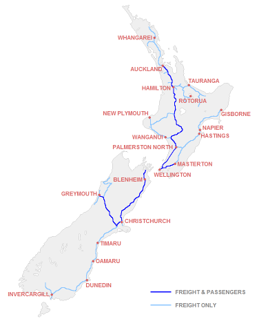 Map of New Zealand Rail Network